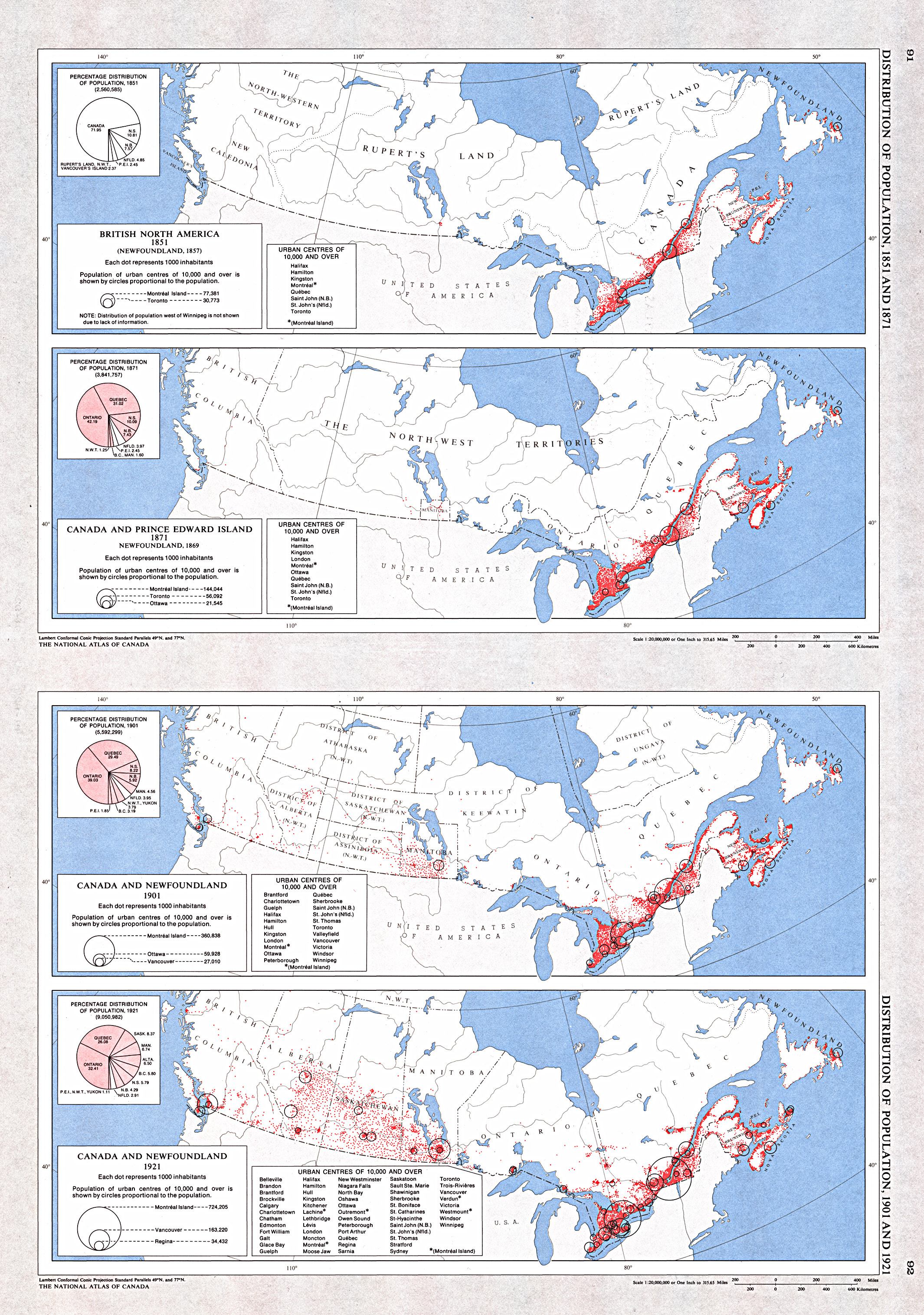 A collection of four maps showing the distribution of population for 1851 (Newfoundland 1857), 1871 (Newfoundland 1869), 1901 and 1921 by historical region. A supplementary chart for each map shows the percentage of population by province and territory. As well, for each map, a text listing urban centres with historical populations of 10 000 or more is provided.